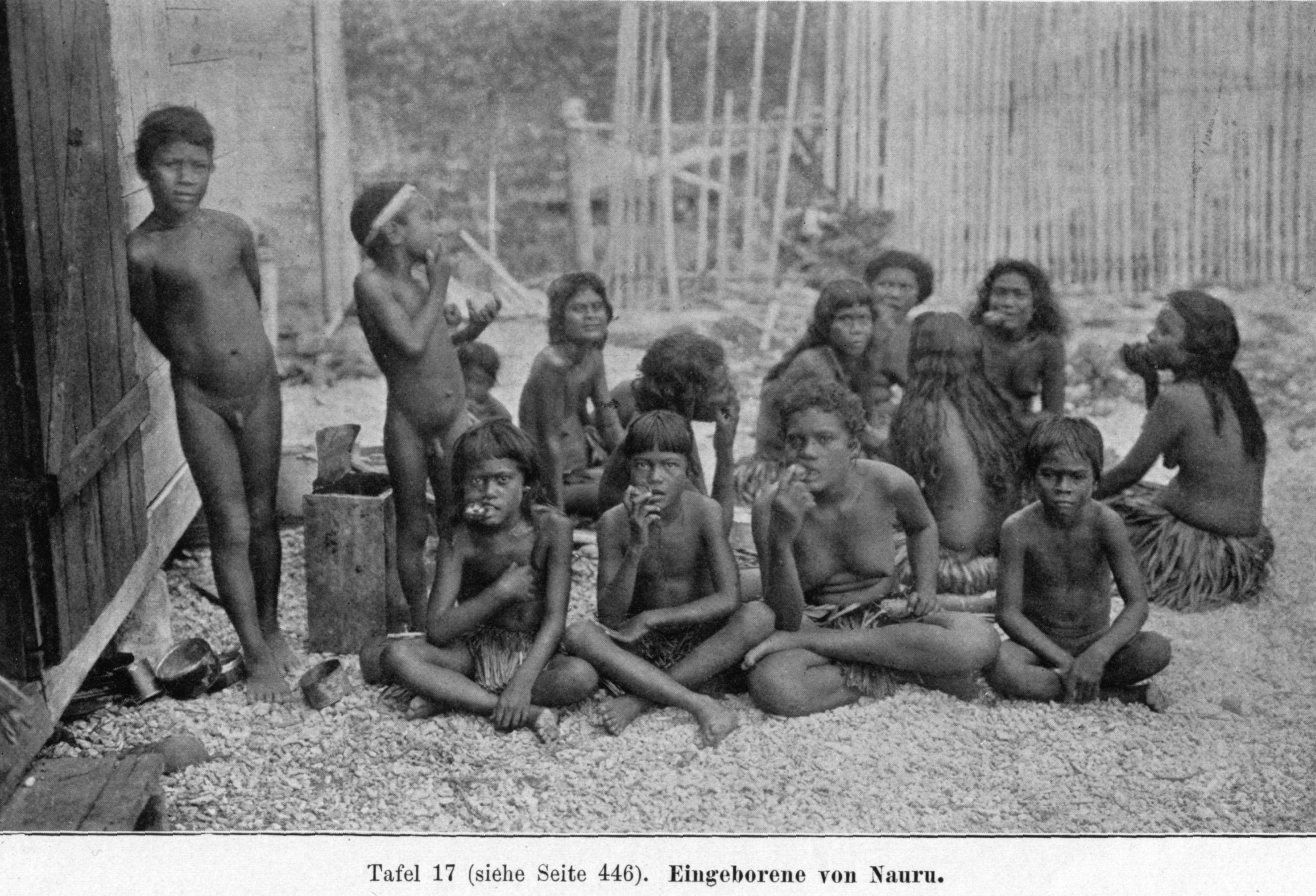 Nauruan people, Nauru